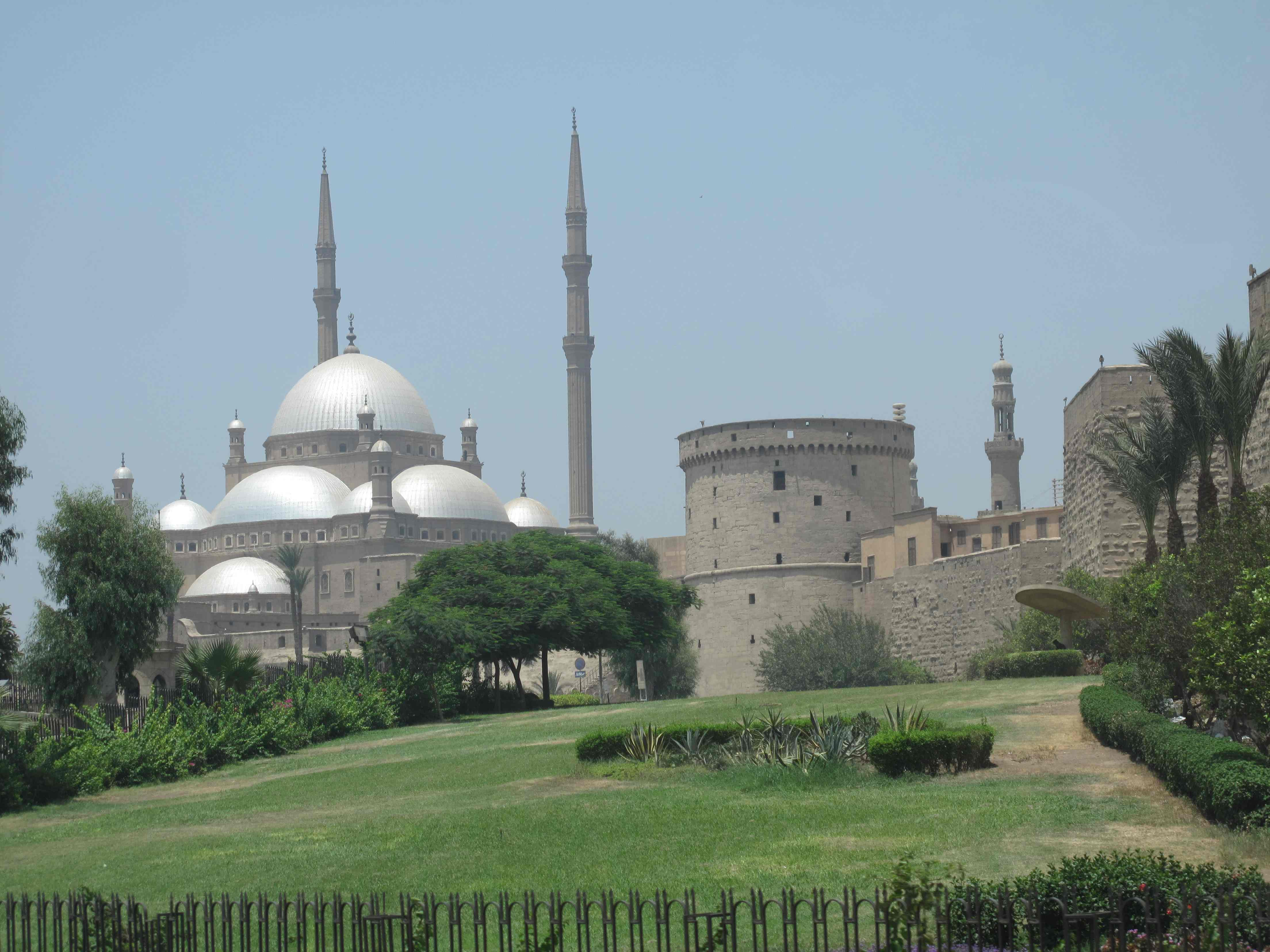 Cairo Citadel with Muhammed Ali Mosque